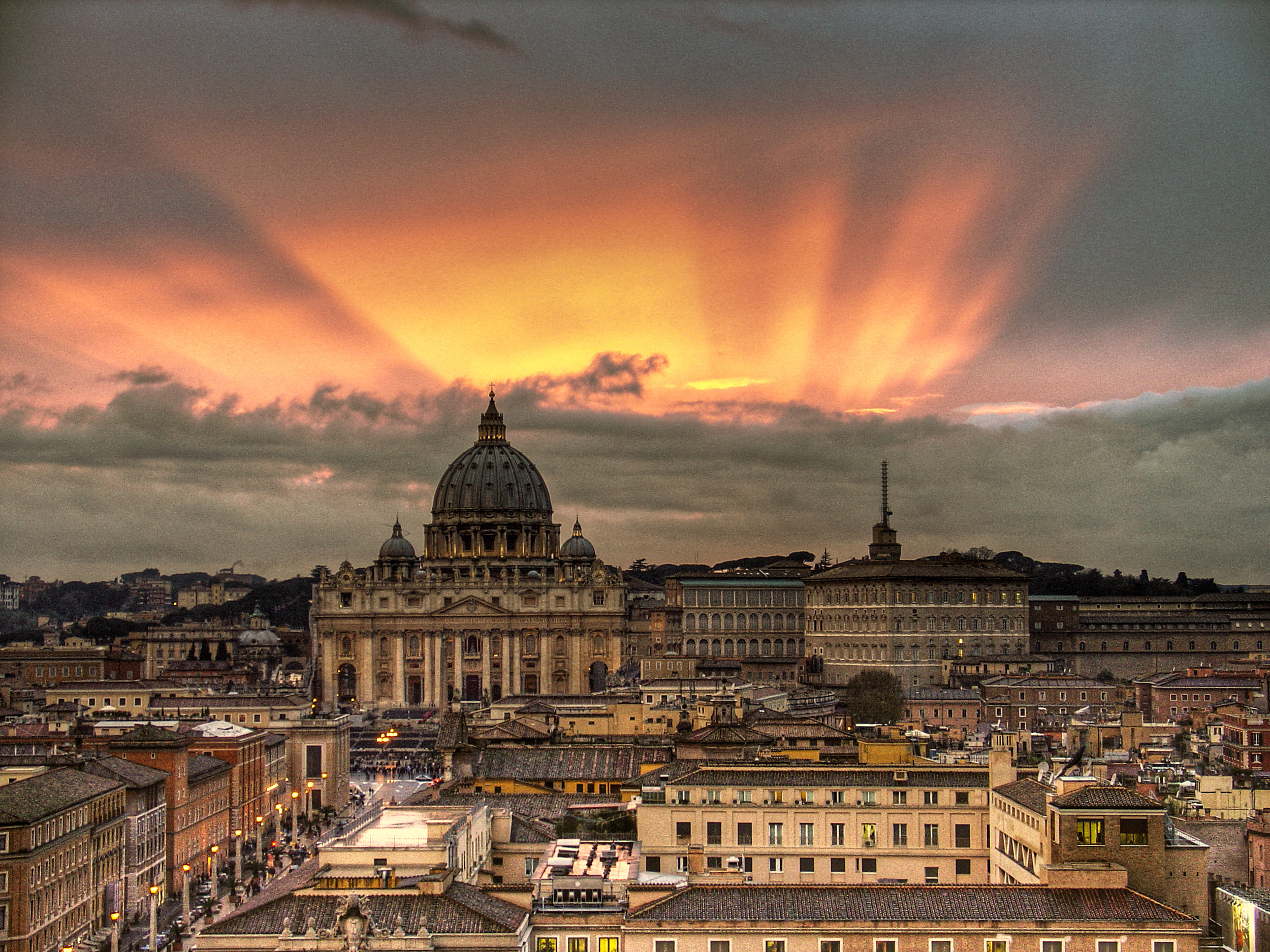 After two days of heavy rain, ideal for visiting Rome :-( the sky opened up and we were rewarded with the most spectacular sunset I ever saw in my life. Unfortunately, I only had my old 5 MP pocket camera with me and this is an HDR from a single picture in the attempt to portray what the scene was really like (or how we perceived it, anyway).